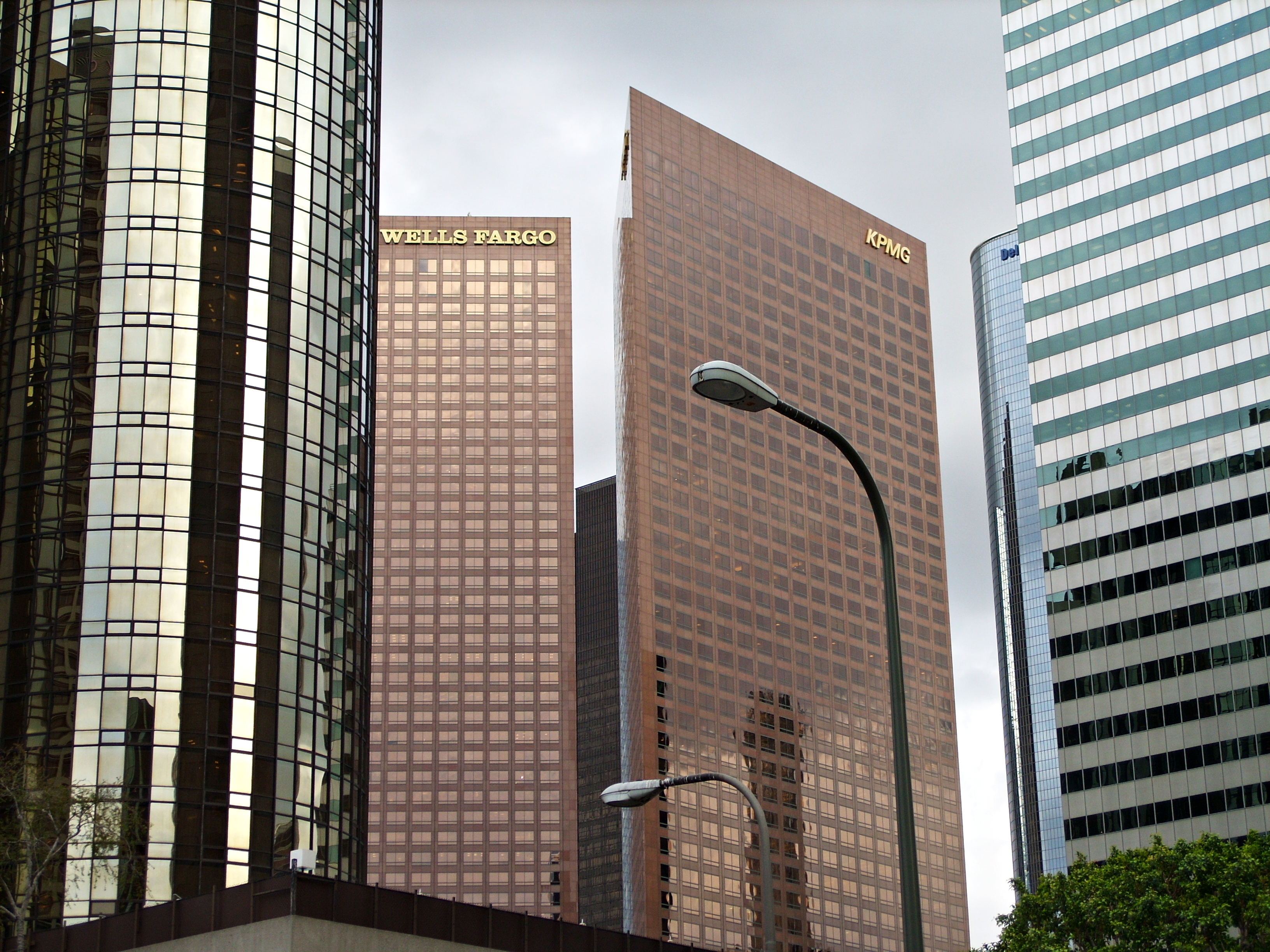 Buildings in downtown Los Angeles, California, USA